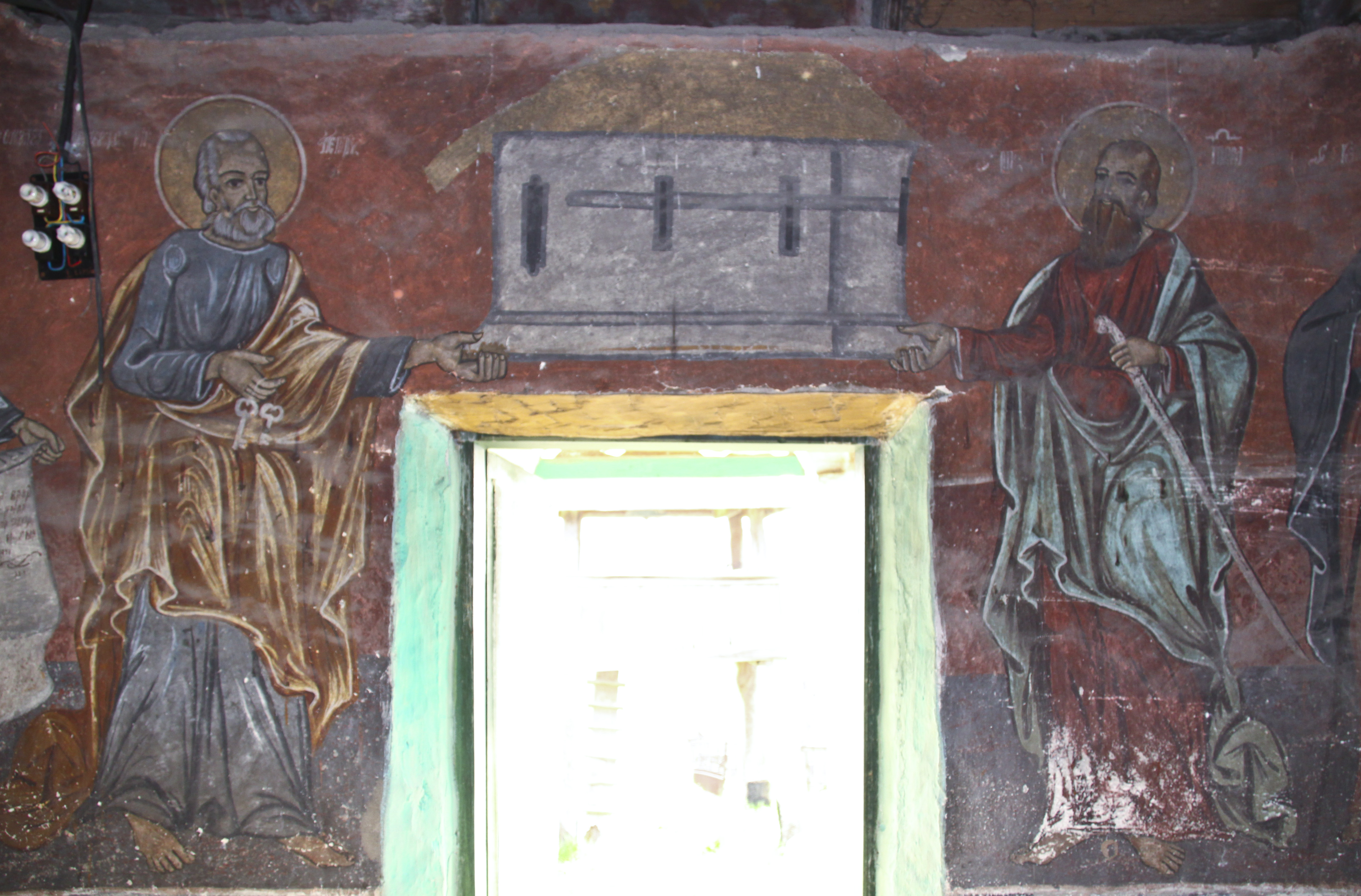 Chilia, Olt county, Romania: the parish church.